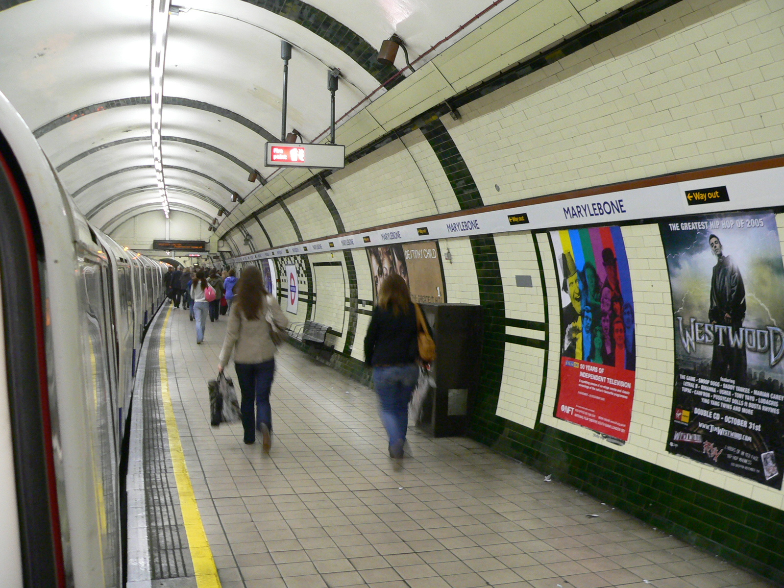 The northbound platfrom at Marylebone tube station on 24 October 2005, viewed from the front-most passenger doorway of a 1972 tube stock train.